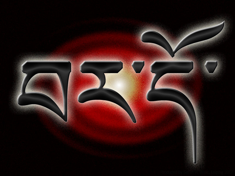 typographical illustration of bar do in tibetan glyphs